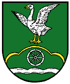 Coat of Arms of Gandesbergen